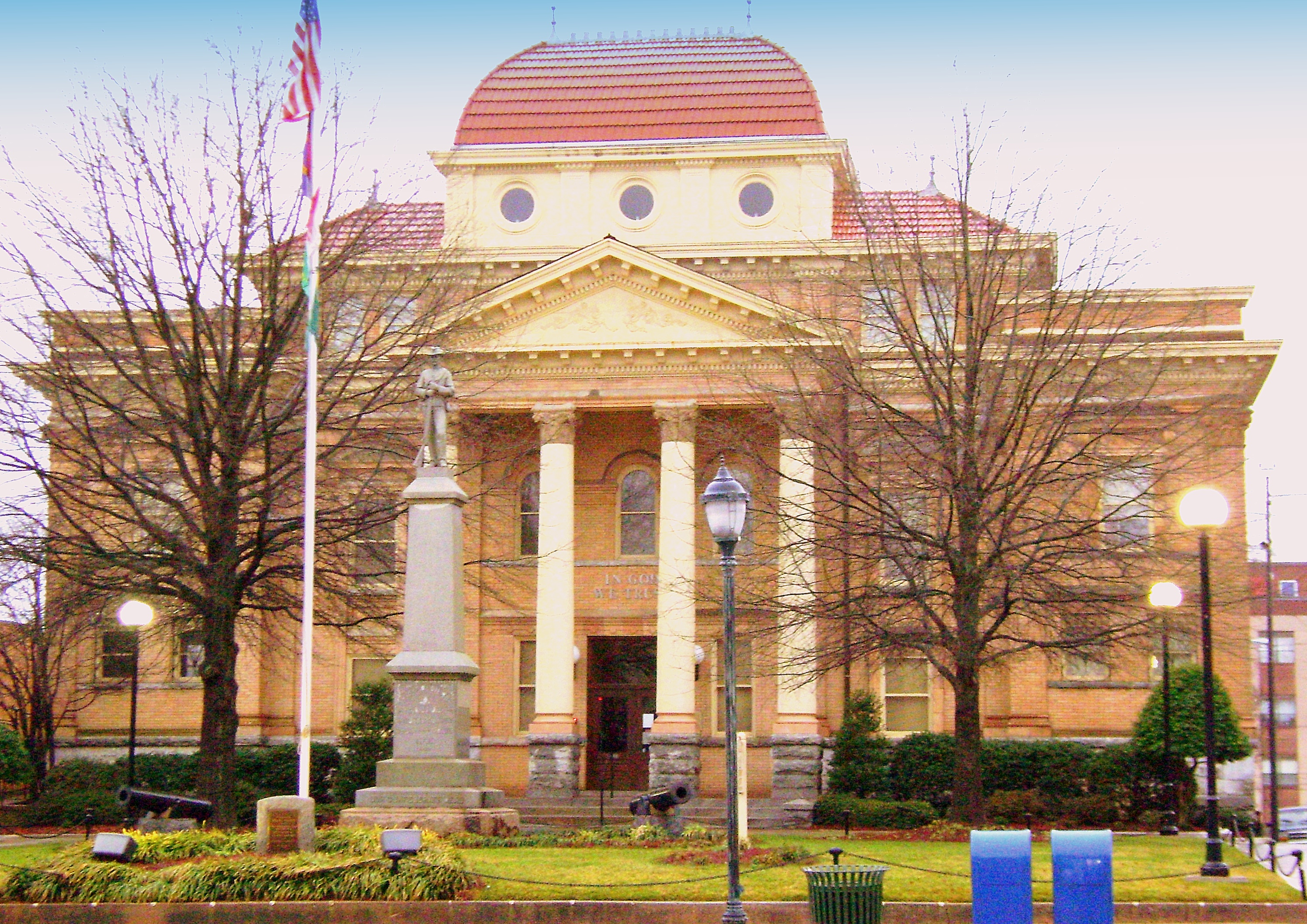 Iredell County Courthouse